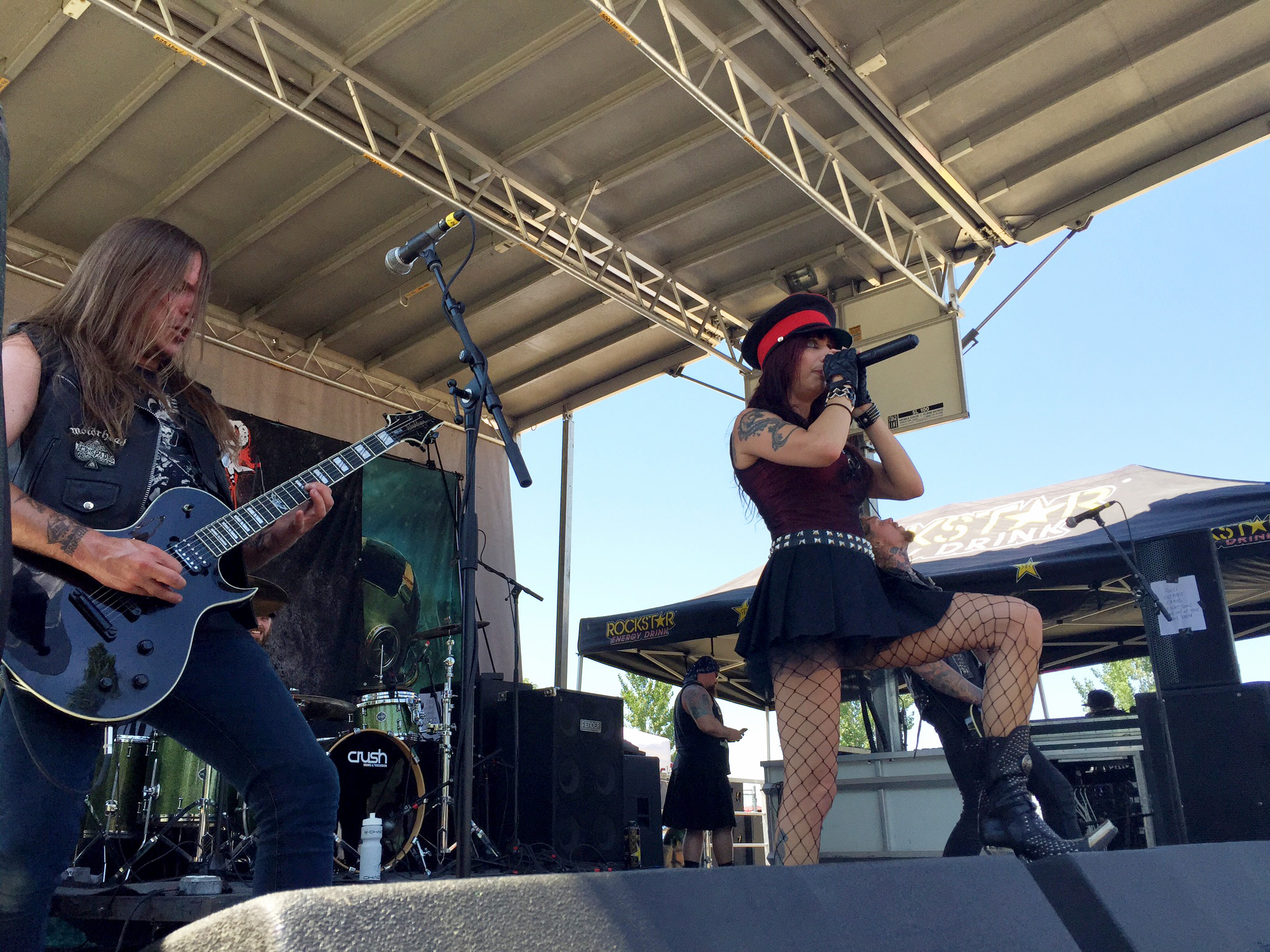 Sister Sin performing in Albuquerque, NM during the Rockstar Energy Drink Mayhem Festival in on July 3, 2015